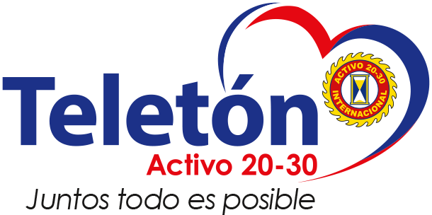 Symbol of Telethon Costa Rica.